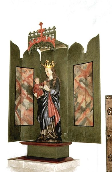 Bedsted Church in Tønder Kommune from apr. 1200